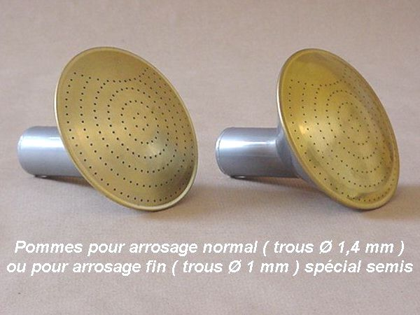 Roses for watering can - manufactured by Guillouard à Nantes, France